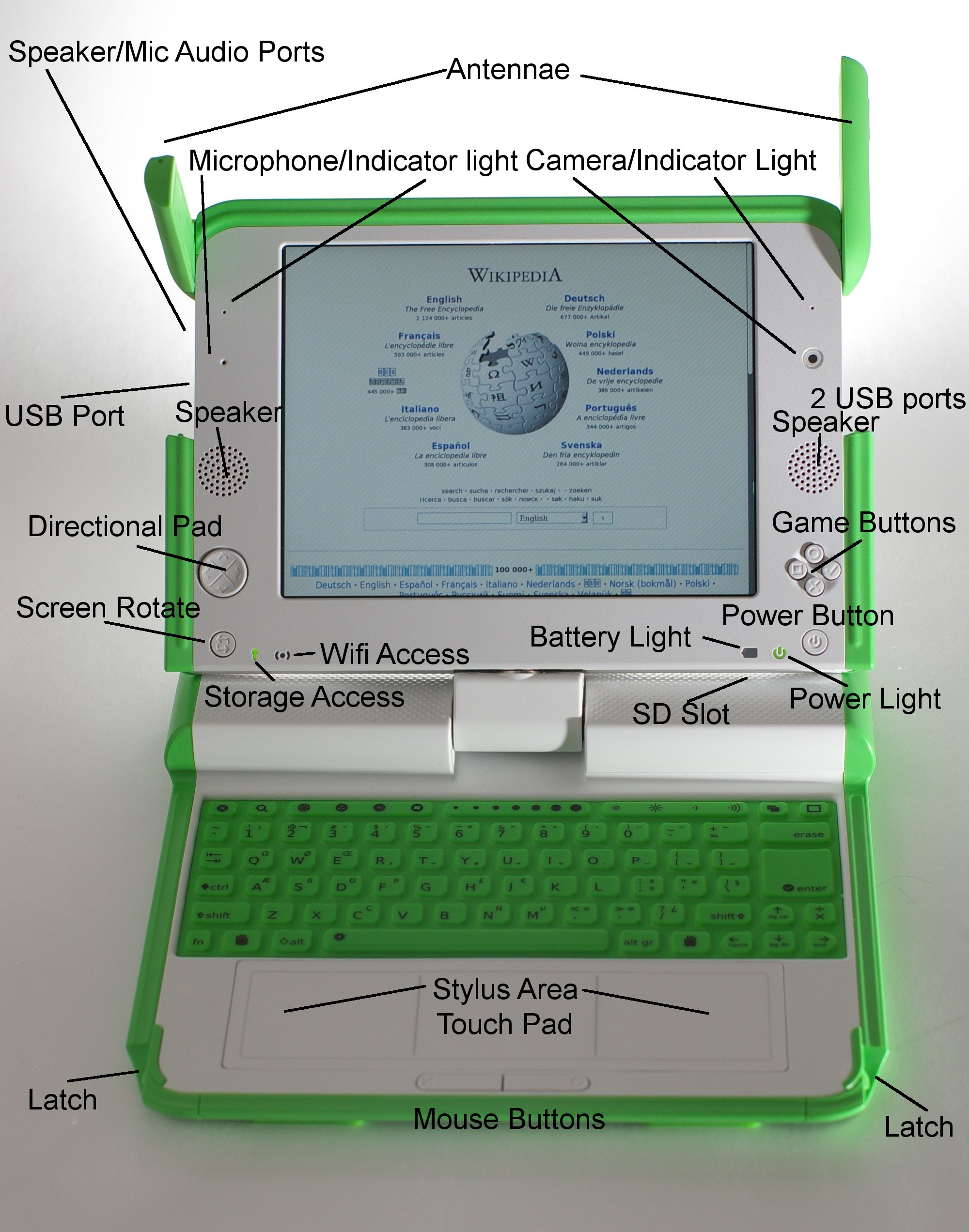 Buttons and features of the fourth generation laptop from the OLPC project, the XO-1.